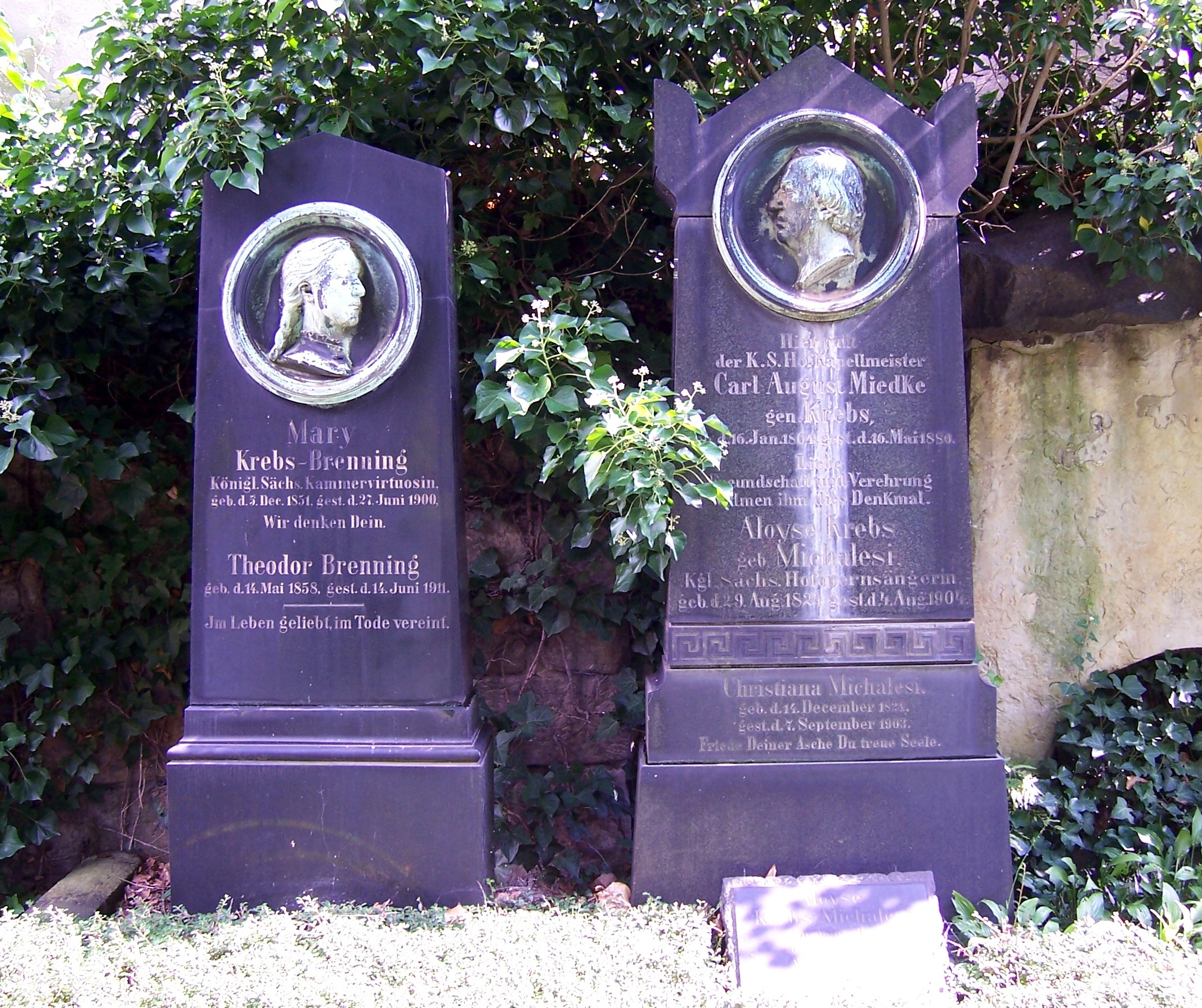 Grave of German piano player Mary Krebs-Brenning and her parents at the Alter Katholischer Friedhof in Dresden.